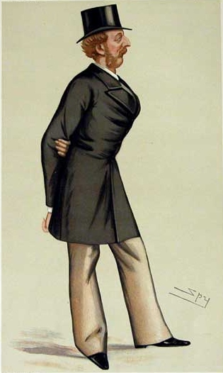 Caricature of Lord Charles Brudenell-Bruce (1834-1897). Caption read "Marlborough".